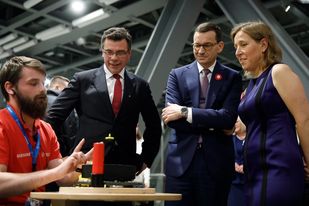 100th anniversary of Poland's regaining of Independence 2018.11.11 Warsaw. Prime Minister Mateusz Morawiecki together with Susan Wojcicki, president of YouTube, visited the Copernicus Science Center.